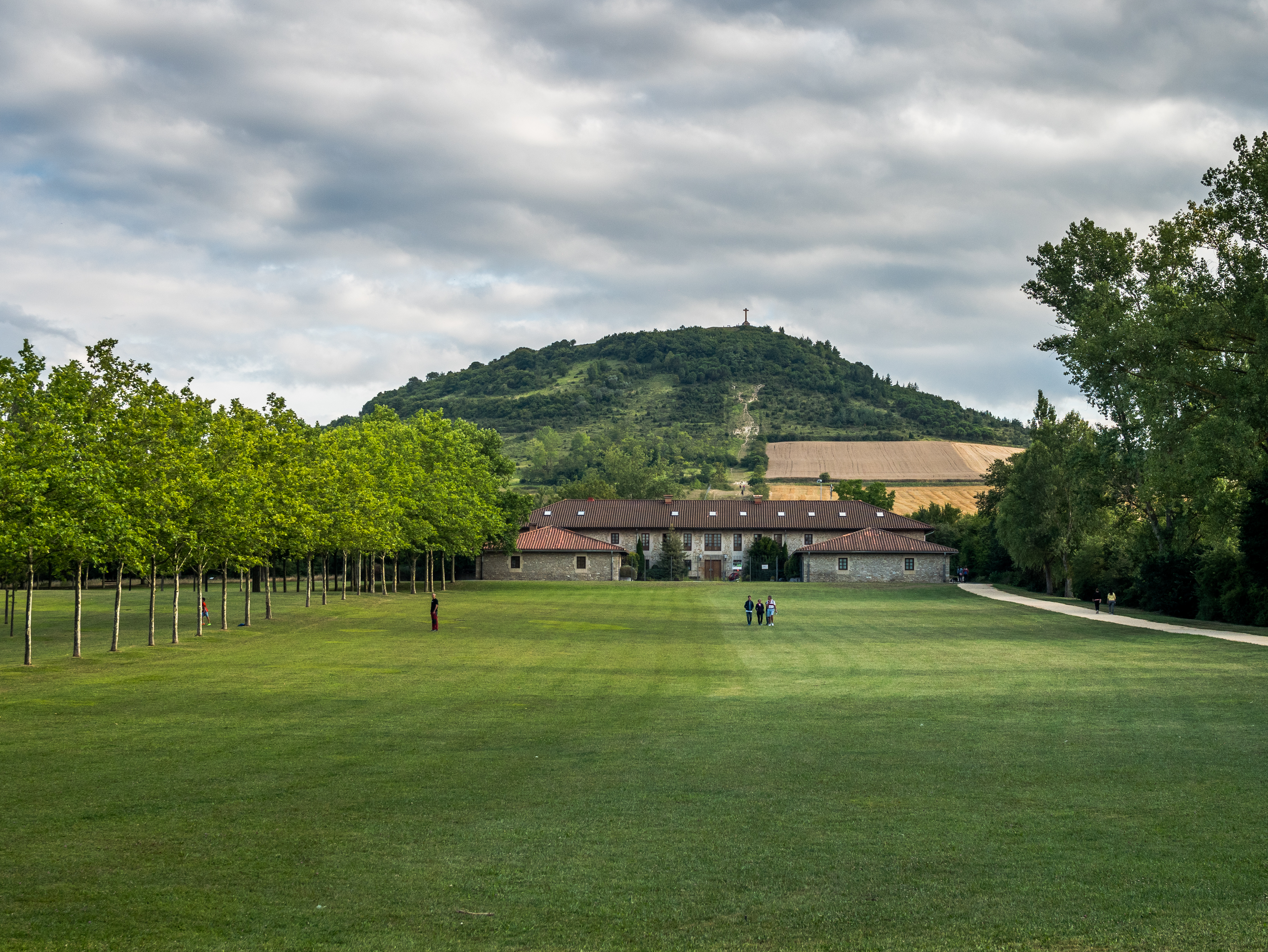 "Casa de la Dehesa" building, Olarizu Meadows and Mount Olarizu. Vitoria-Gasteiz, Basque Country, Spain